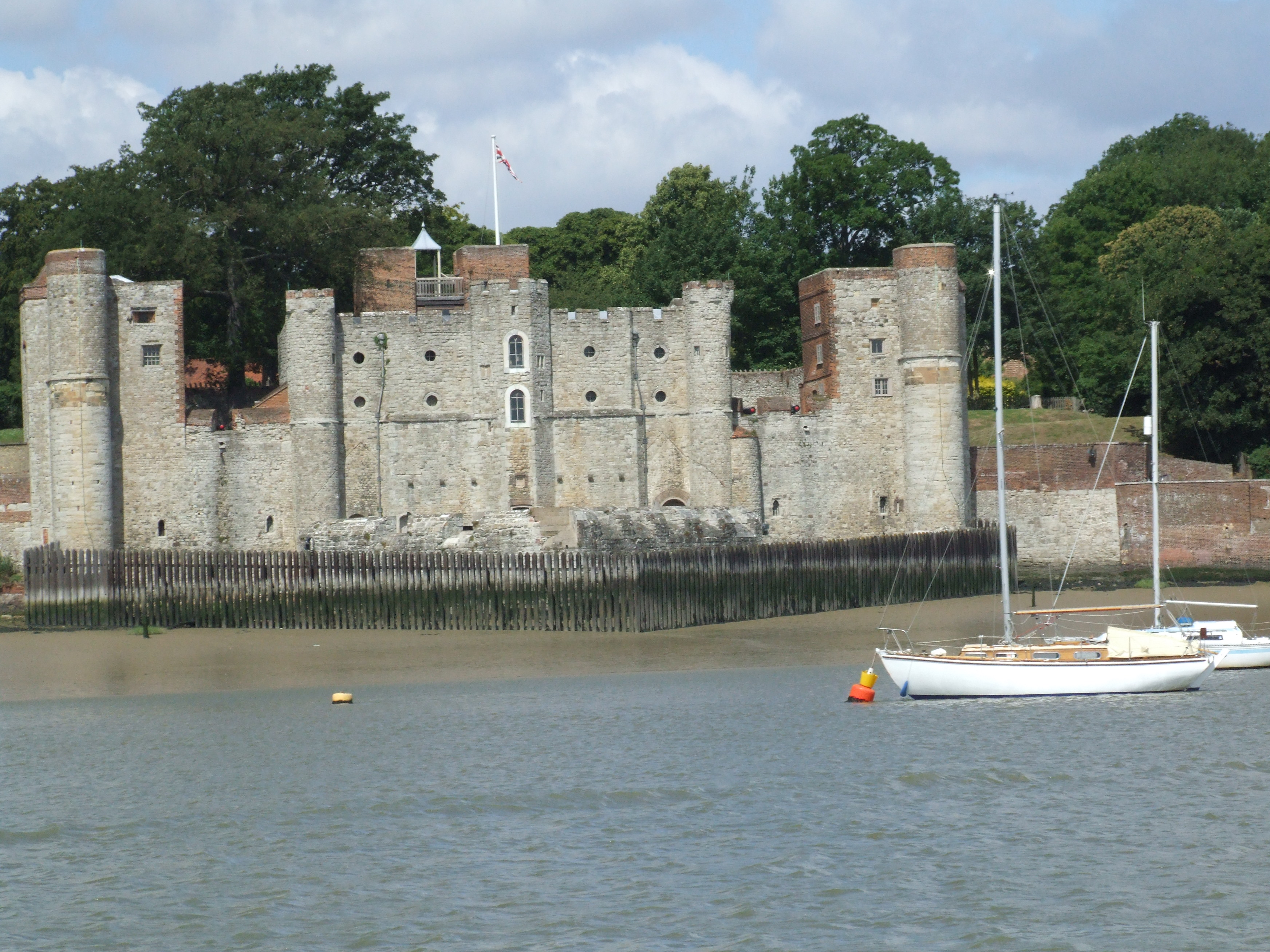 Upnor Castle taken from aboard the PS Kingswear Castle on the River Medway.